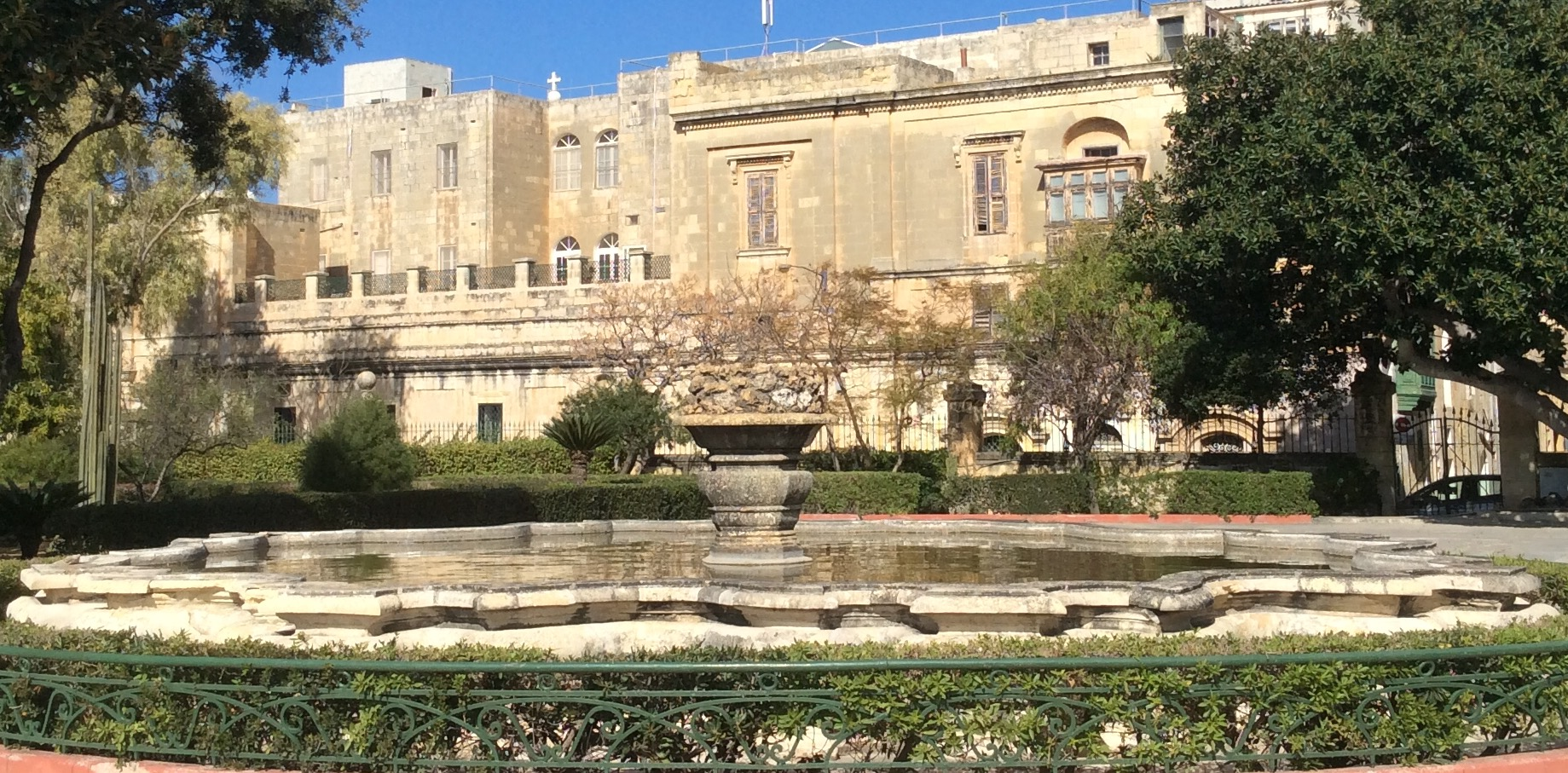 Neptune Statue's Fountain at Argotti Gardens. Originally located at Porta Marina